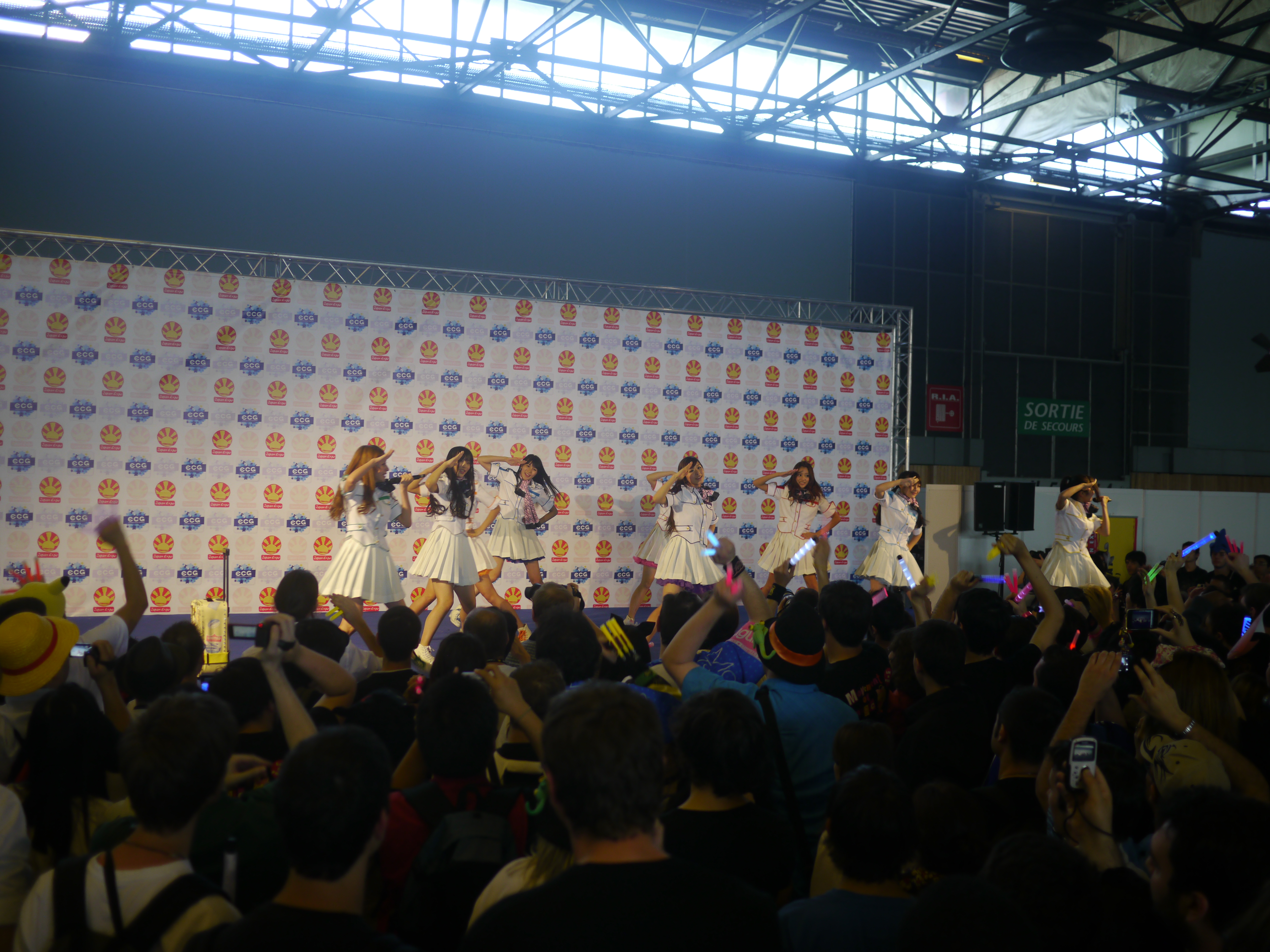 Japan Expo Festival, 12th impact